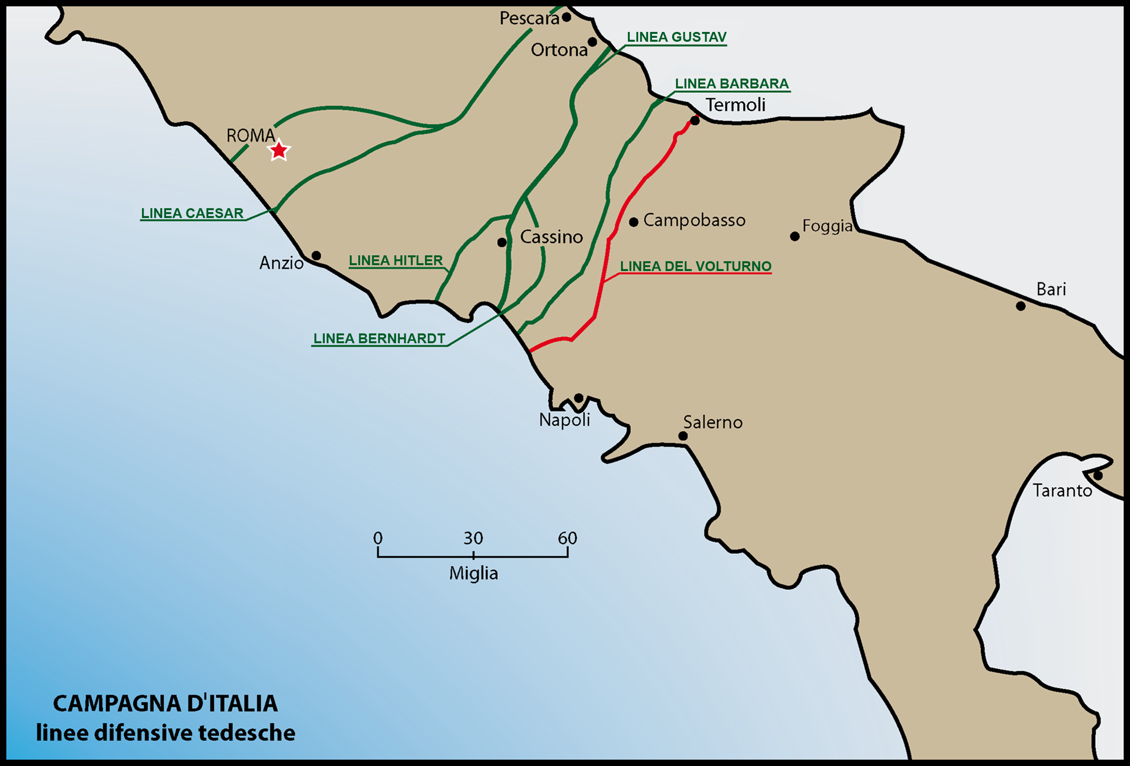 A map showing the German defensive line in central Italy during World War II. Volturno line in red.